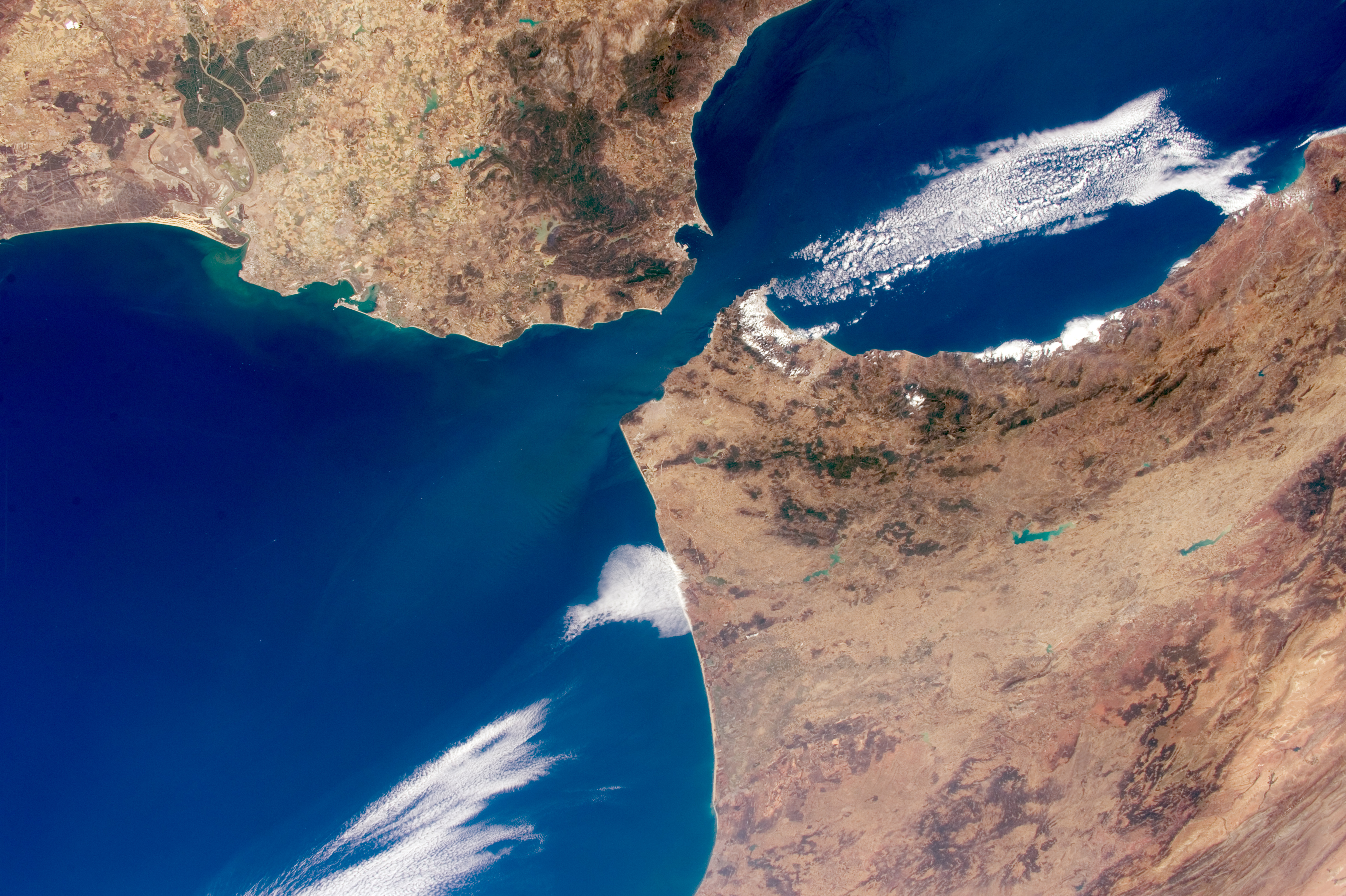 NASA astronaut Scott Kelly on the International Space Station July 1, 2015 tweeted this image out of an Earth observation as part of his Space Geo trivia contest. Scott tweeted this comment and clue: "#SpaceGeo! Where the ocean meets the sea, this waterway channels a peaceful merger. Name it!" Congratulations to @aubinahsbahs for correctly identifying this image as the Strait of Gibraltar first. He will receive an autographed copy of this image when Scott returns to Earth in March 2016.